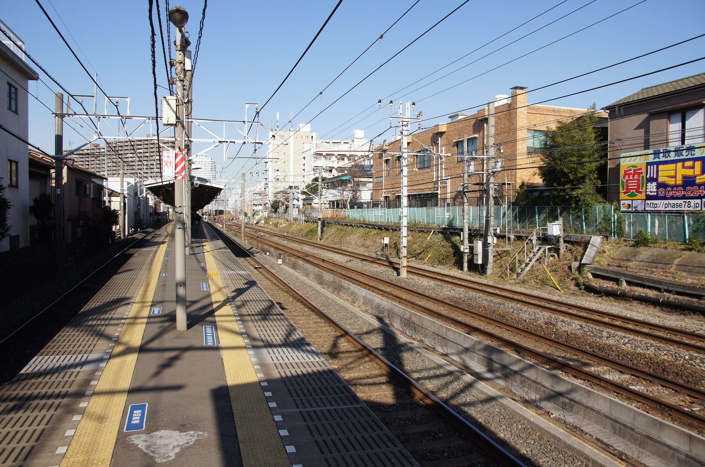 View from the southern end of the platforms of Kita-Ikebukuro Station on the Tobu Tojo Line, looking northward with the JR Saikyo Line tracks on the right